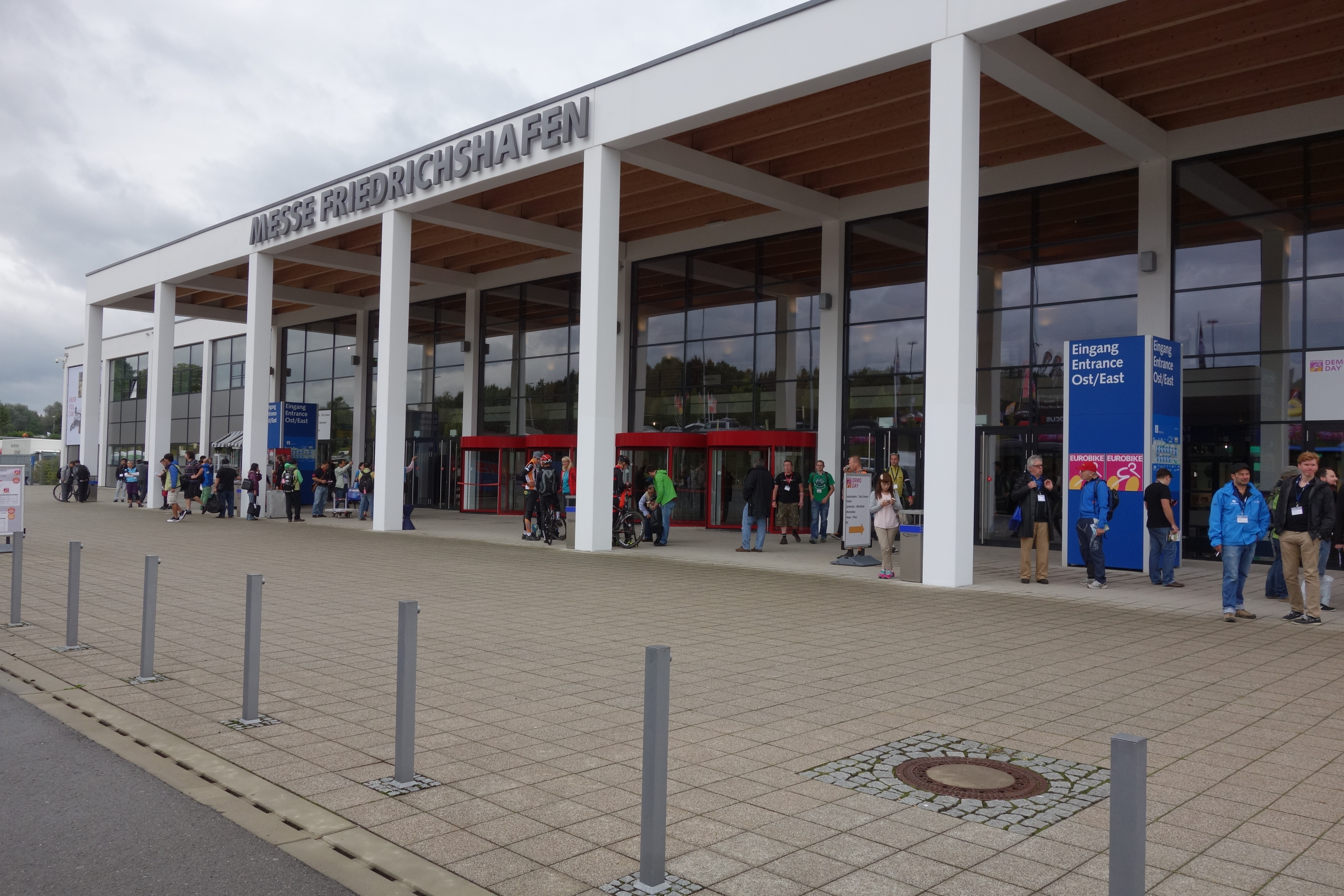 Messe Friedrichschafen -- Eurobike 2014